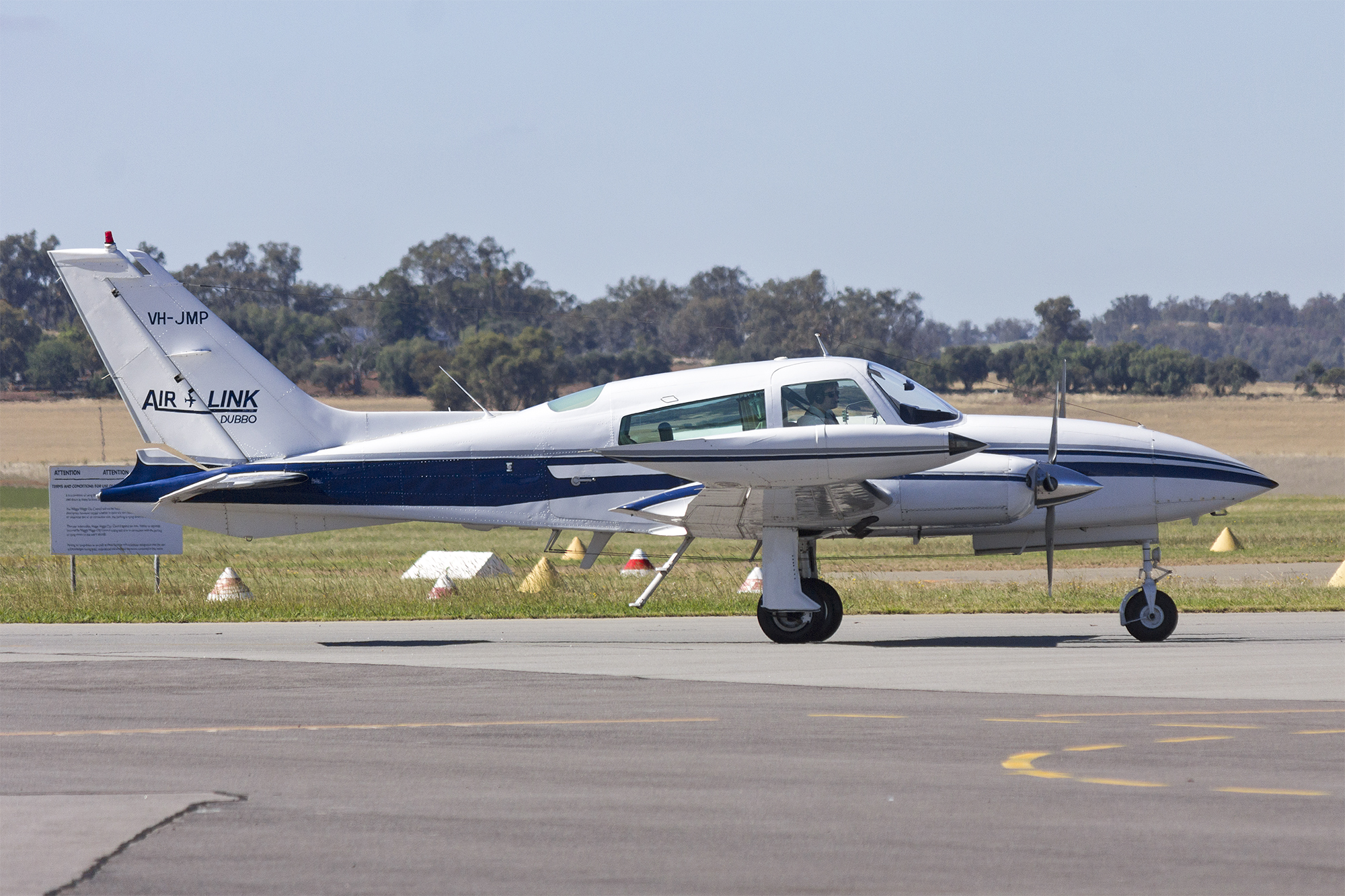 Air-Link (VH-JMP) Cessna 310R taxiing at Wagga Wagga Airport.